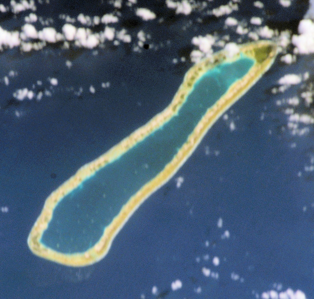 Atoll Takume (Tuamotu Archipelago, French Polynesia), from space.